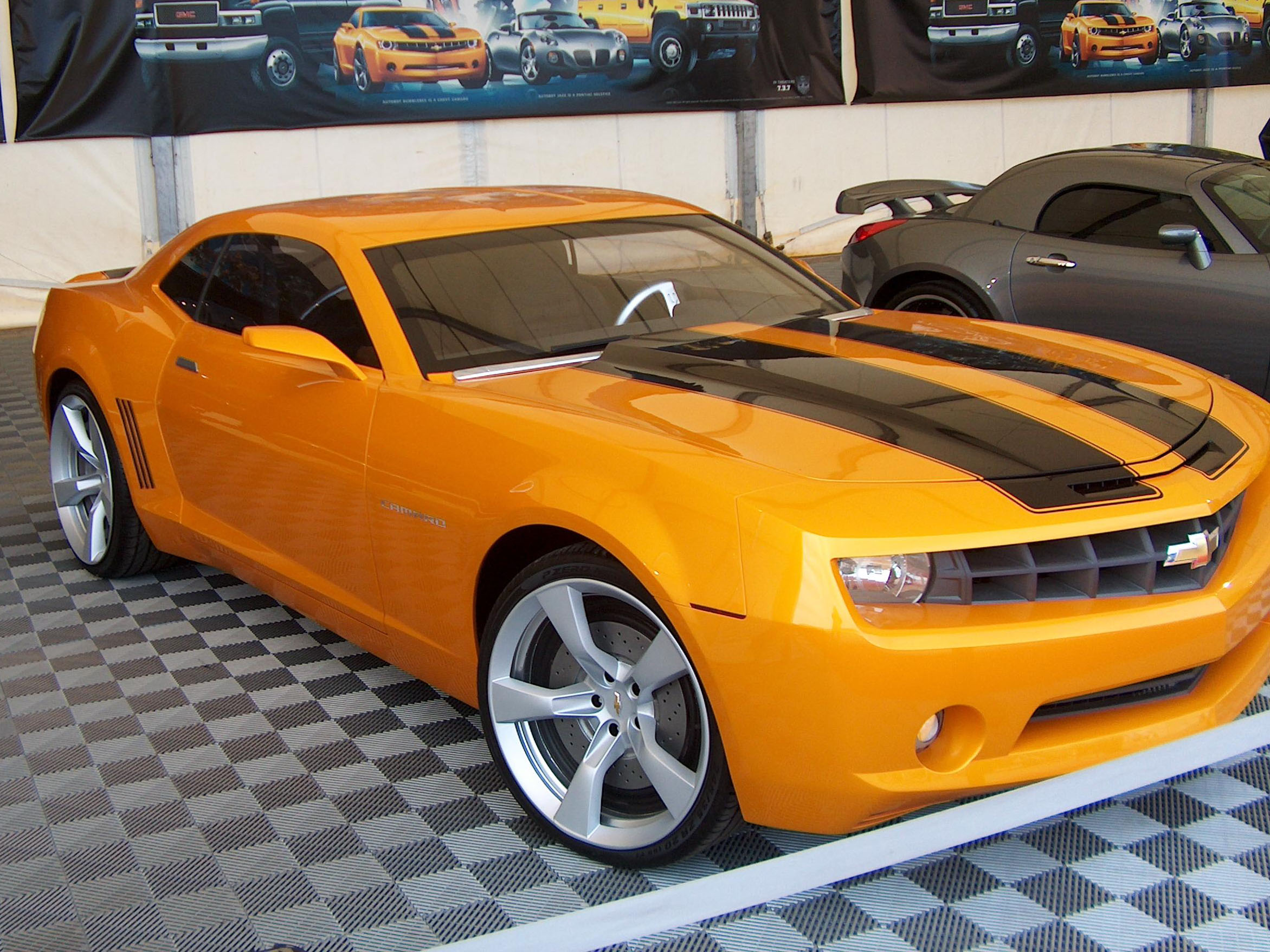 Bumblebee at the Detroit River Walk Festival.